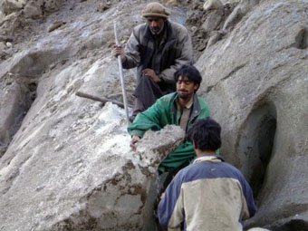 glacier growing, glacier grafting, artificial glacier, breplanting